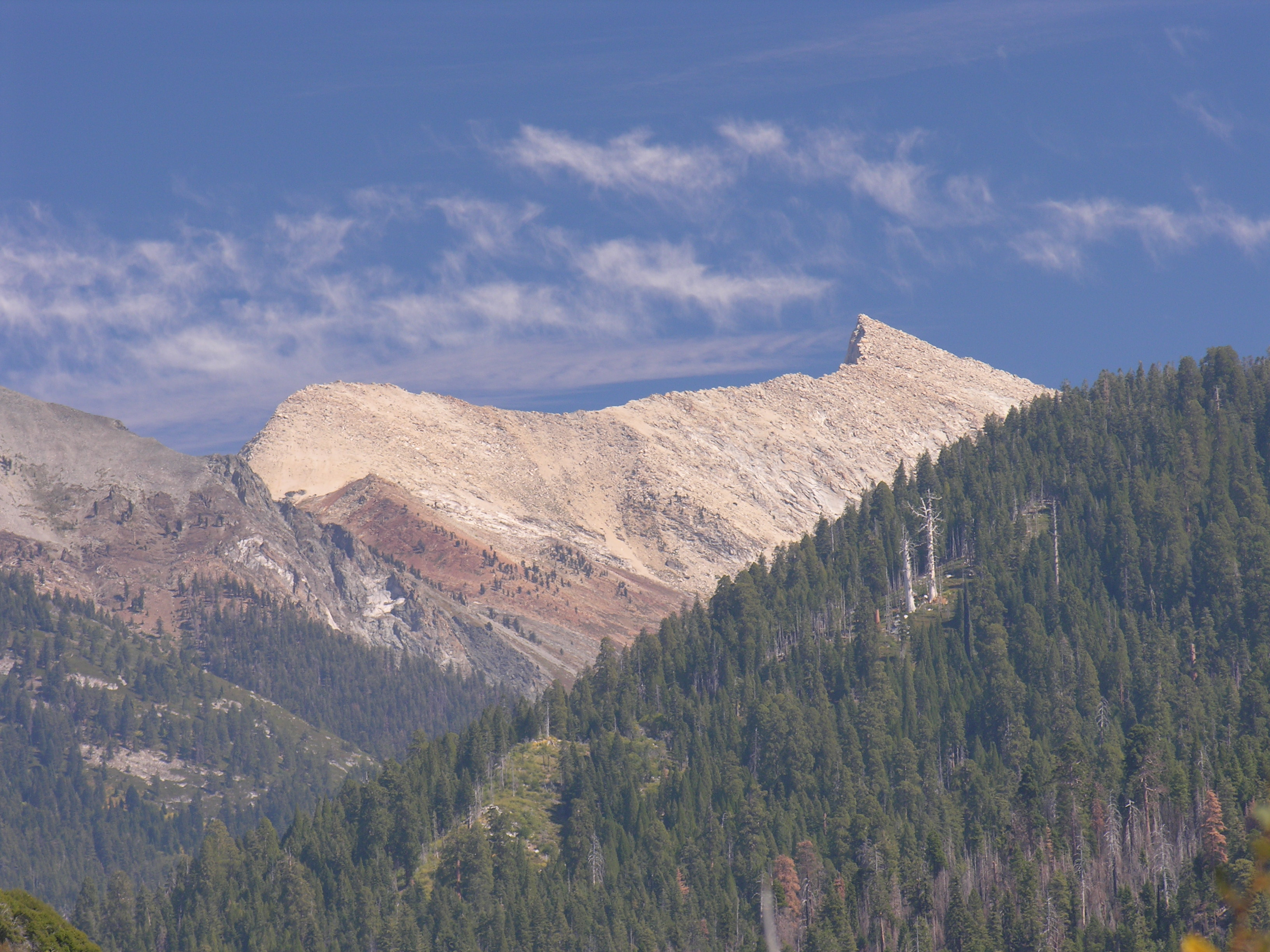 Sawtooth Peak visible from Mineral King Valley. Photo taken Summer 2005.